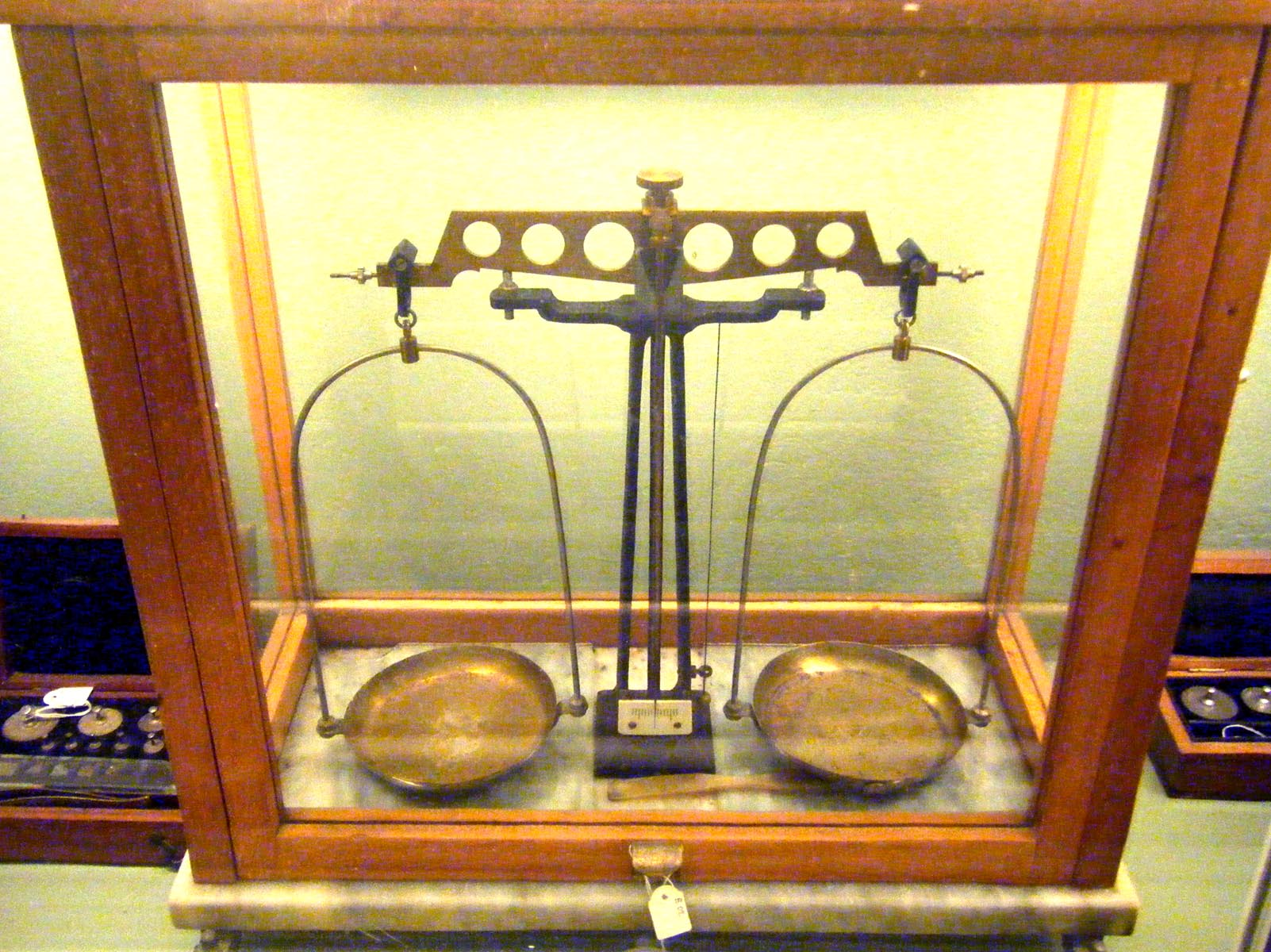 vintage scientific balance (end of 1800)